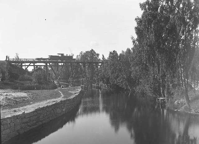 Steam locomotive passing over the Sandvikselven Bridge on Drammenbanen, in Bærum, Norway.